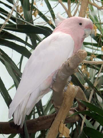 Description: Major Mitchell's Cockatoo - Source: own work - Location: Central Park Zoo, New York - Author: self, User:Stavenn